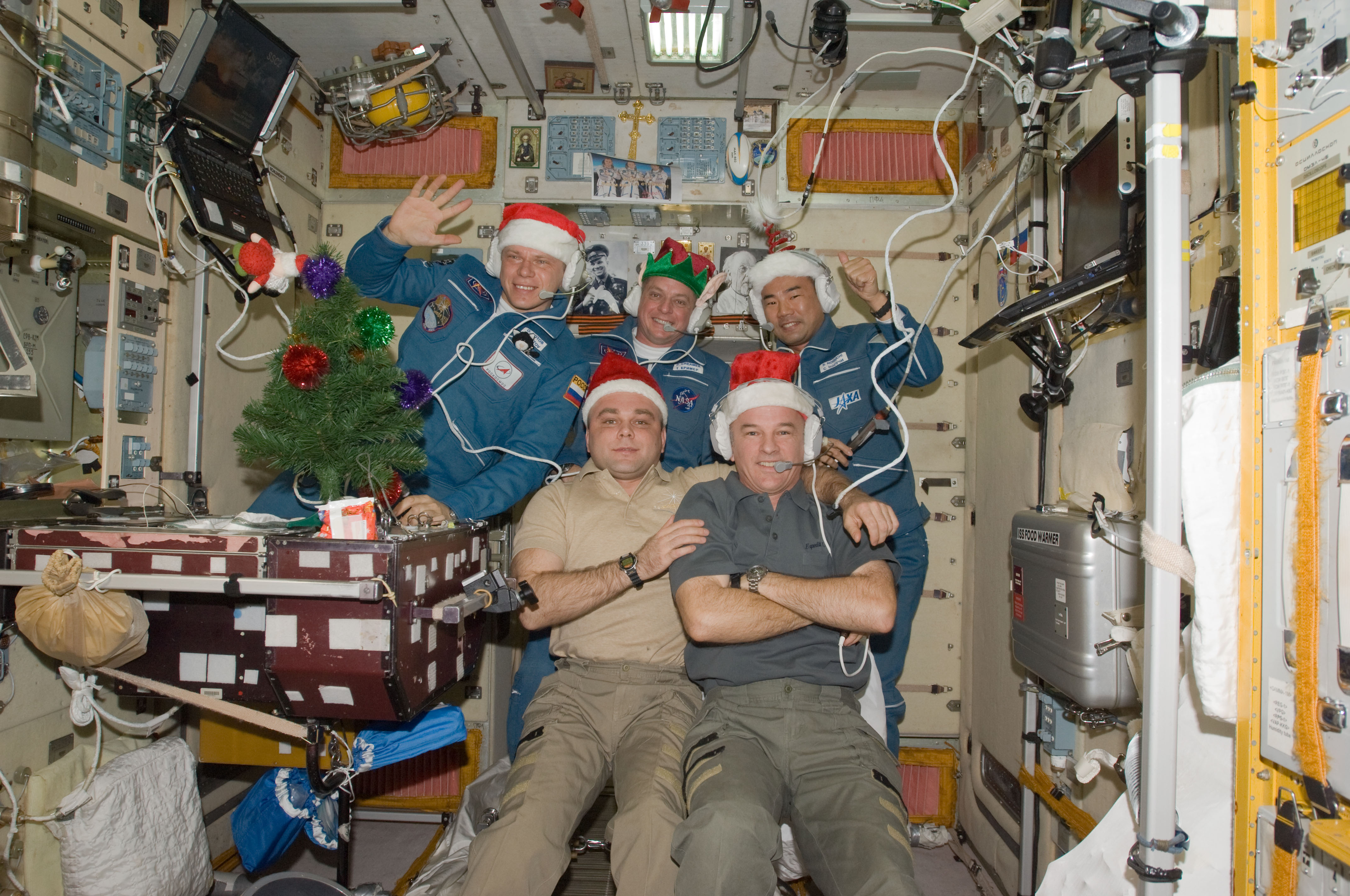 Wearing festive holiday hats, the Expedition 22 crew members are pictured while speaking with officials from Russia, Japan and the United States from the Zvezda Service Module of the International Space Station. In the front row, are NASA astronaut Jeffrey Williams (right), commander; and Russian cosmonaut Maxim Suraev, flight engineer. Pictured on the back row (left to right) are Russian cosmonaut Oleg Kotov, NASA astronaut T.J. Creamer and Japan Aerospace Exploration Agency astronaut Soichi Noguchi, all flight engineers.